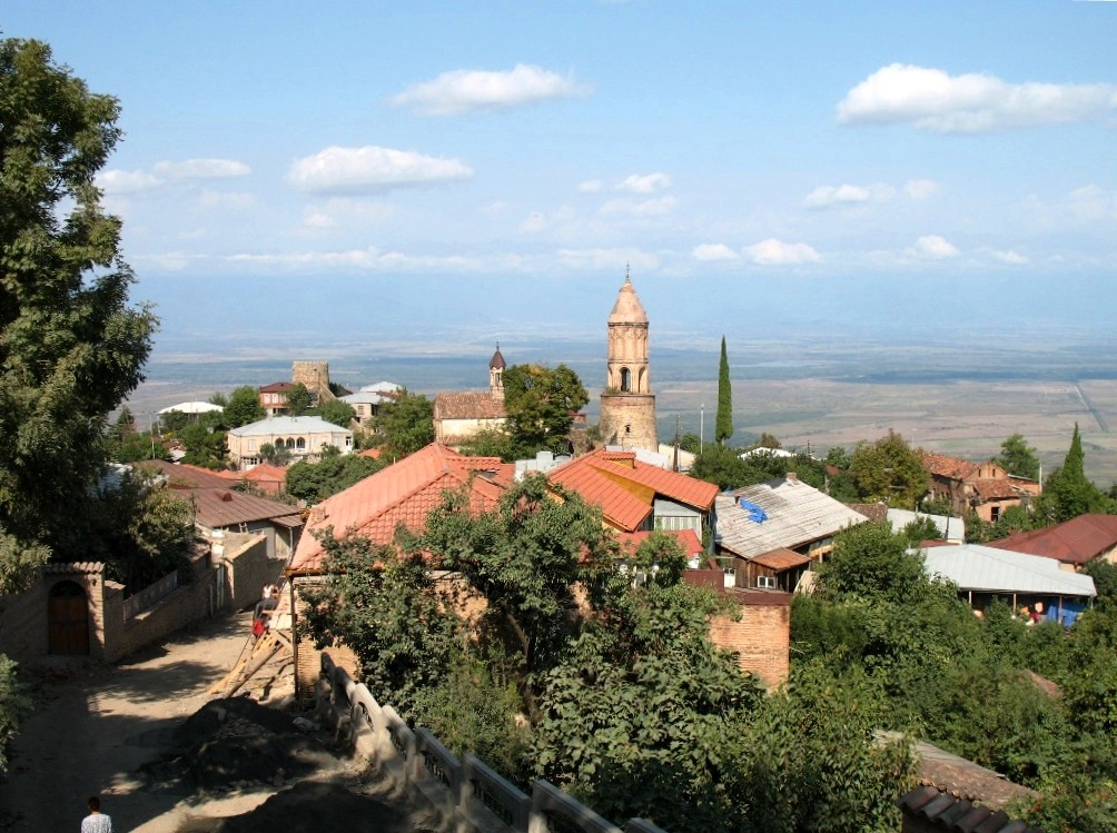 Sighnaghi